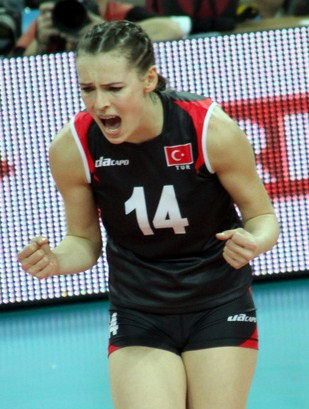 Turkish volleyball player Erdem Eda celebrates one of the points of the Turkey team during the game between Germany and Turkey for the European Championship of Women's Volleyball 2009 in Poland... [Germany 3:2 Turkey, Wroclaw, Poland, 27.09.2009]